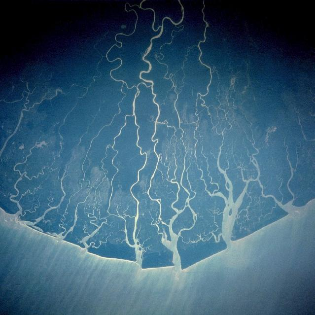 NASA Space Shuttle Overflight photo of the Niger Delta.